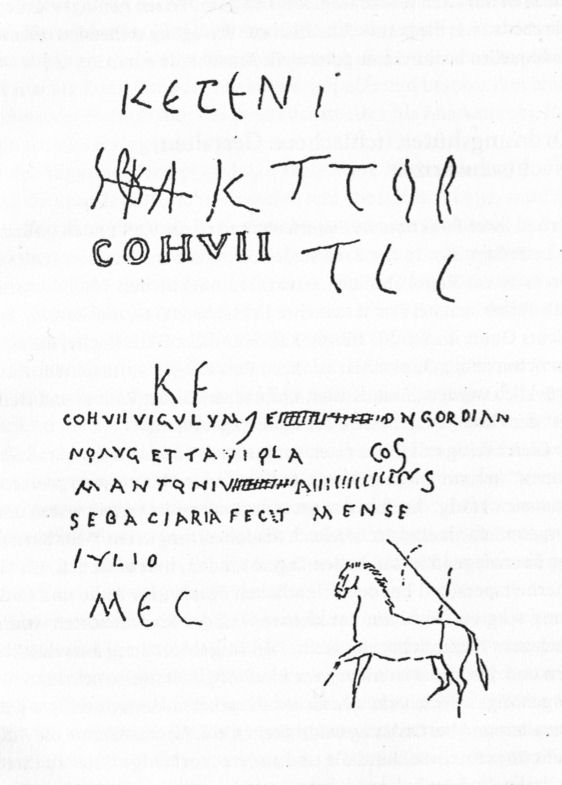 Graffito from the guard-room of the 7th cohors of the Roman vigiles (firefighters) located in Trans Tiberim (today: Trastevere).